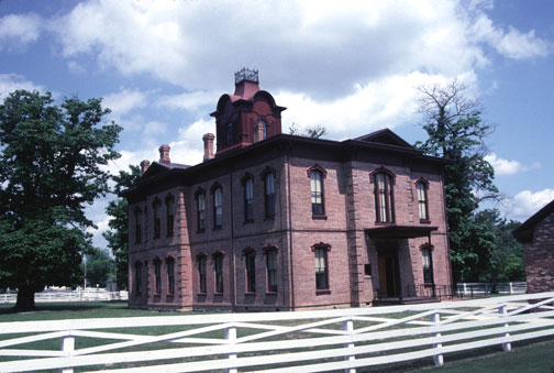 Old Hempstead County courthouse in Washington, Arkansas, United States